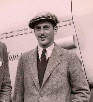 Giles Guthrie, standing in front of the Percival Vega Gull G-AEKE in which they won the Schlesinger Air Race.